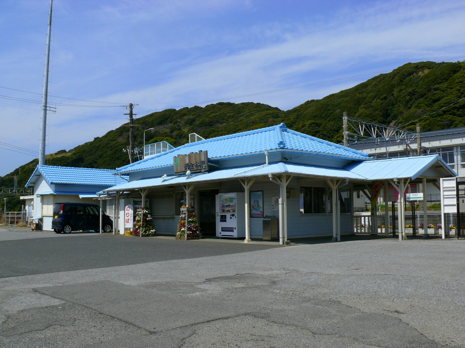 Hamakanaya Station（Chiba prefecture , Japan）.